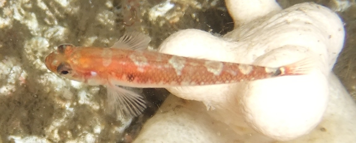 Two-spotted goby (Gobiusculus flavescens)